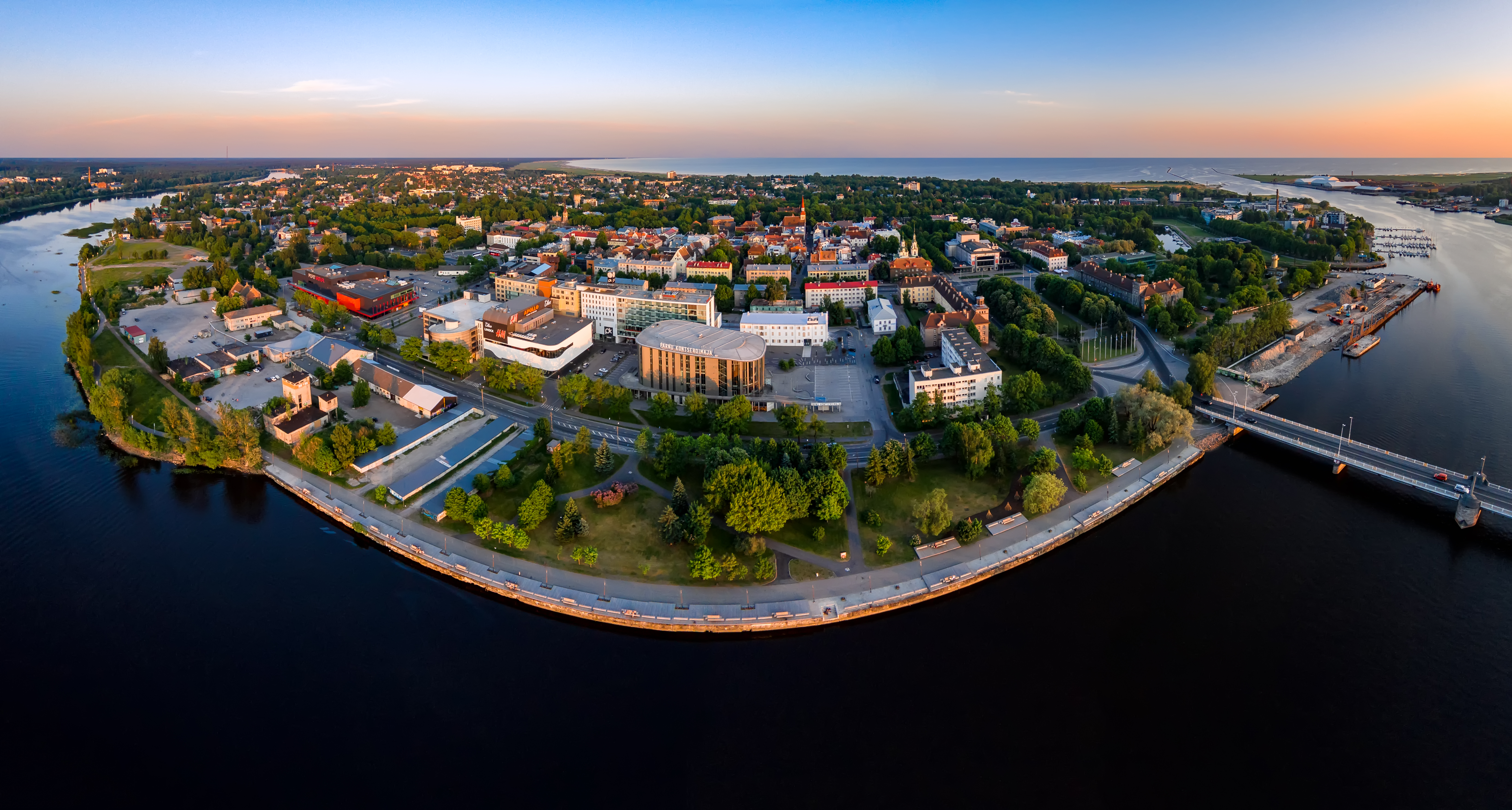 Aerial photo of Pärnu in Estonia